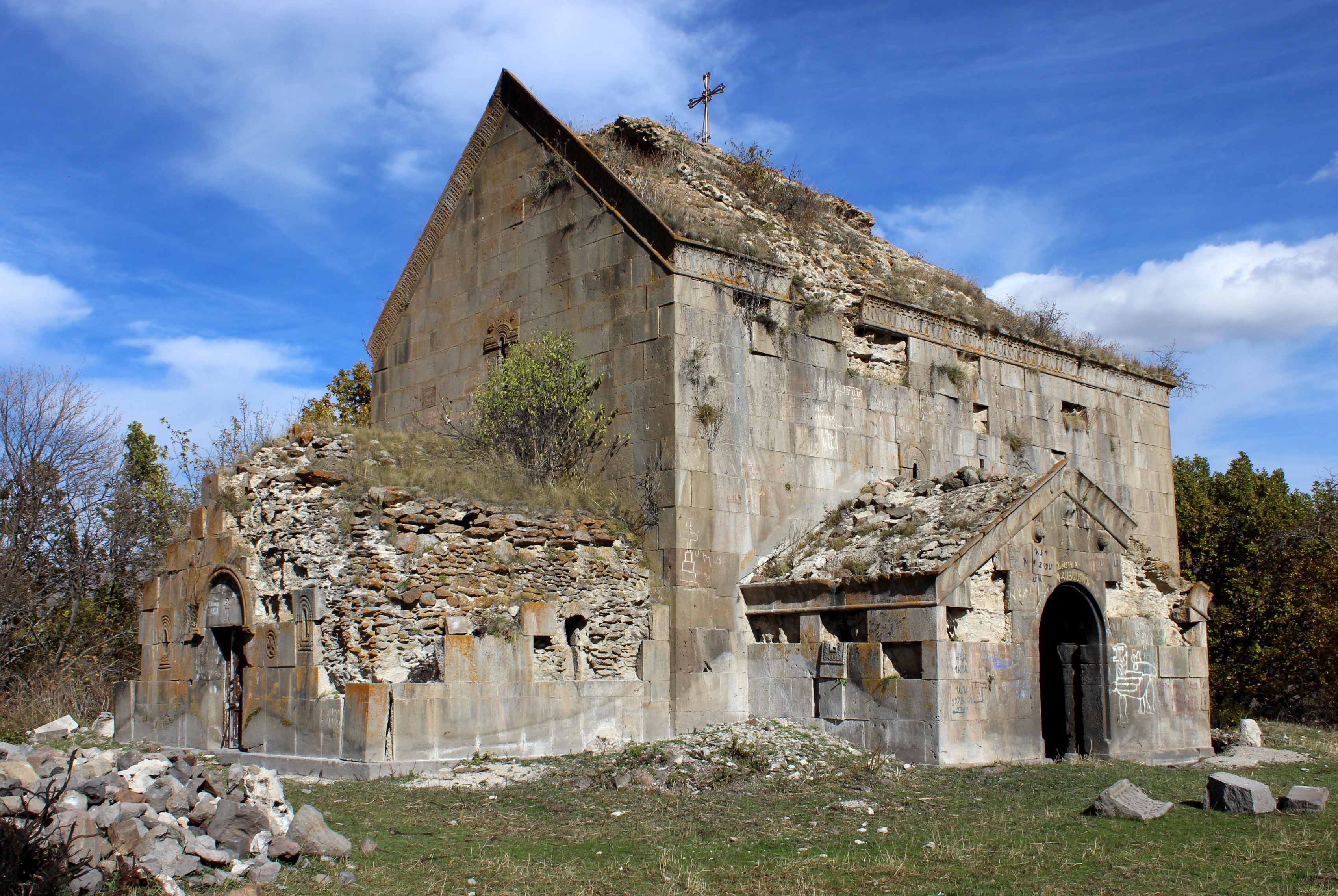 Tejharuyk Monastery near Meghradzor, Armenia